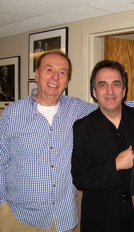 Geoff Emerick and Magic Cristian backstage at Sgt. Pepper Live Featuring Cheap Trick.